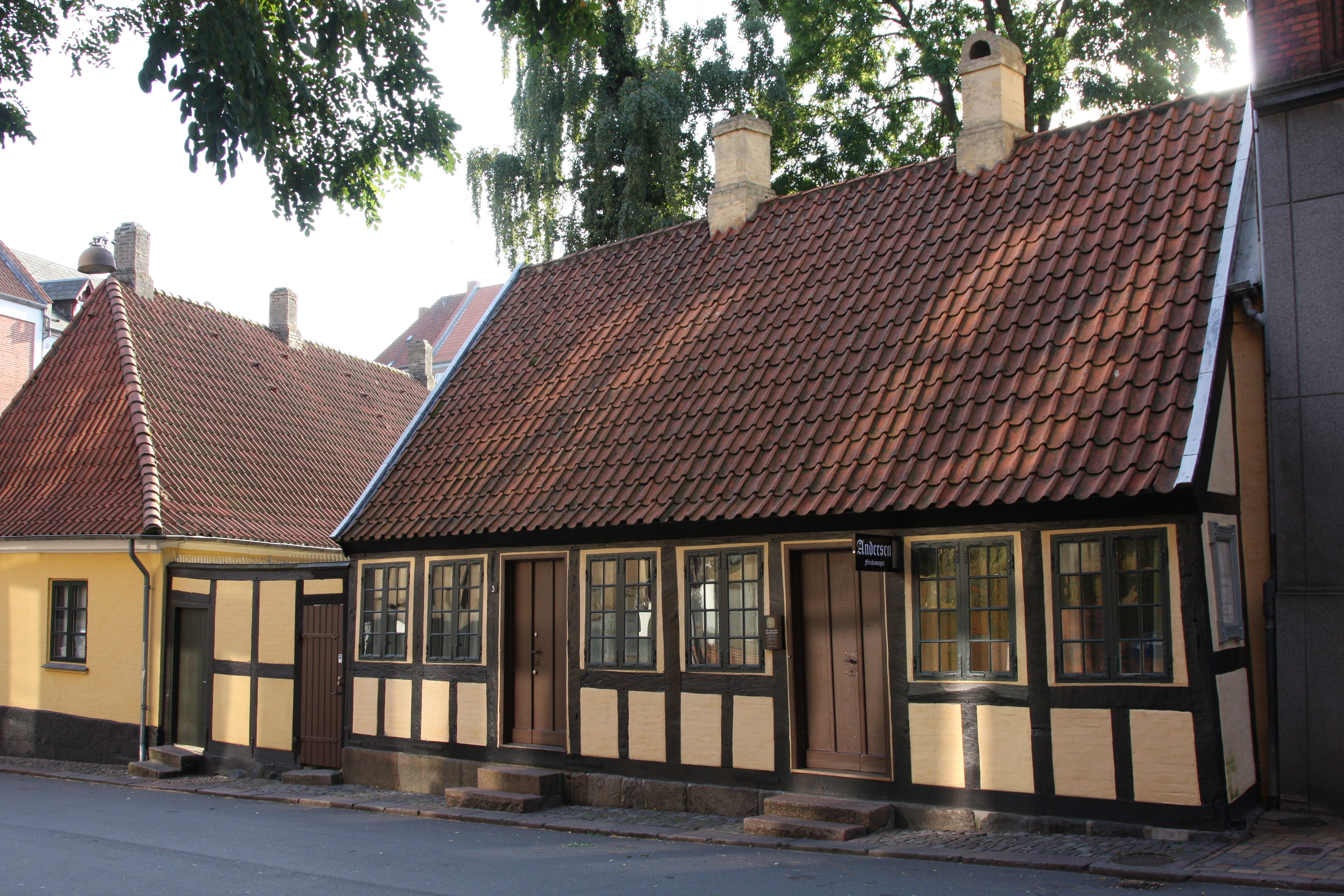 Fairy-tale author Hans Christian Andersen's childhood home in Odense on Fyn in Denmark.